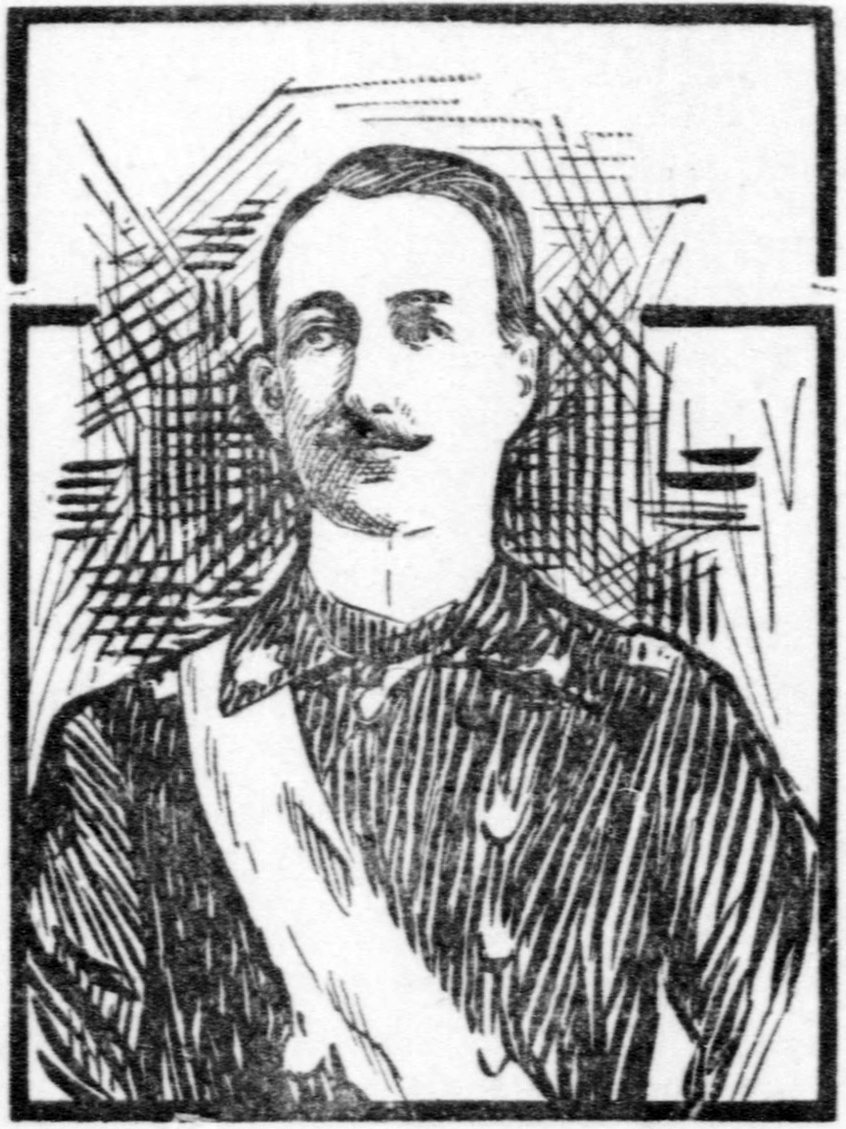 Drawing of Luigi Amedeo, Duke of the Abruzzi